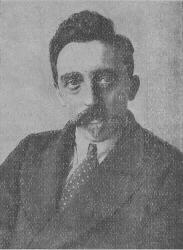 Fedor Bogatyrtchouk (chess player)